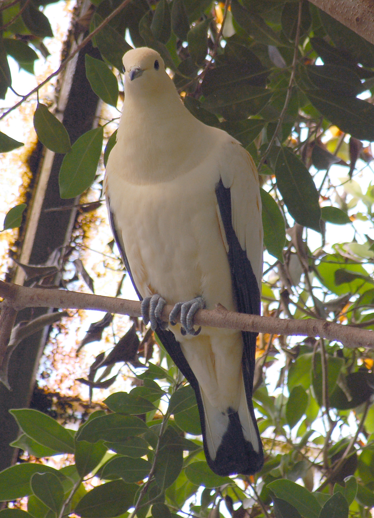 A photograph of a Pied Imperial-pigeonen (Ducula bicolor en ). Photo taken at the National Aviary.